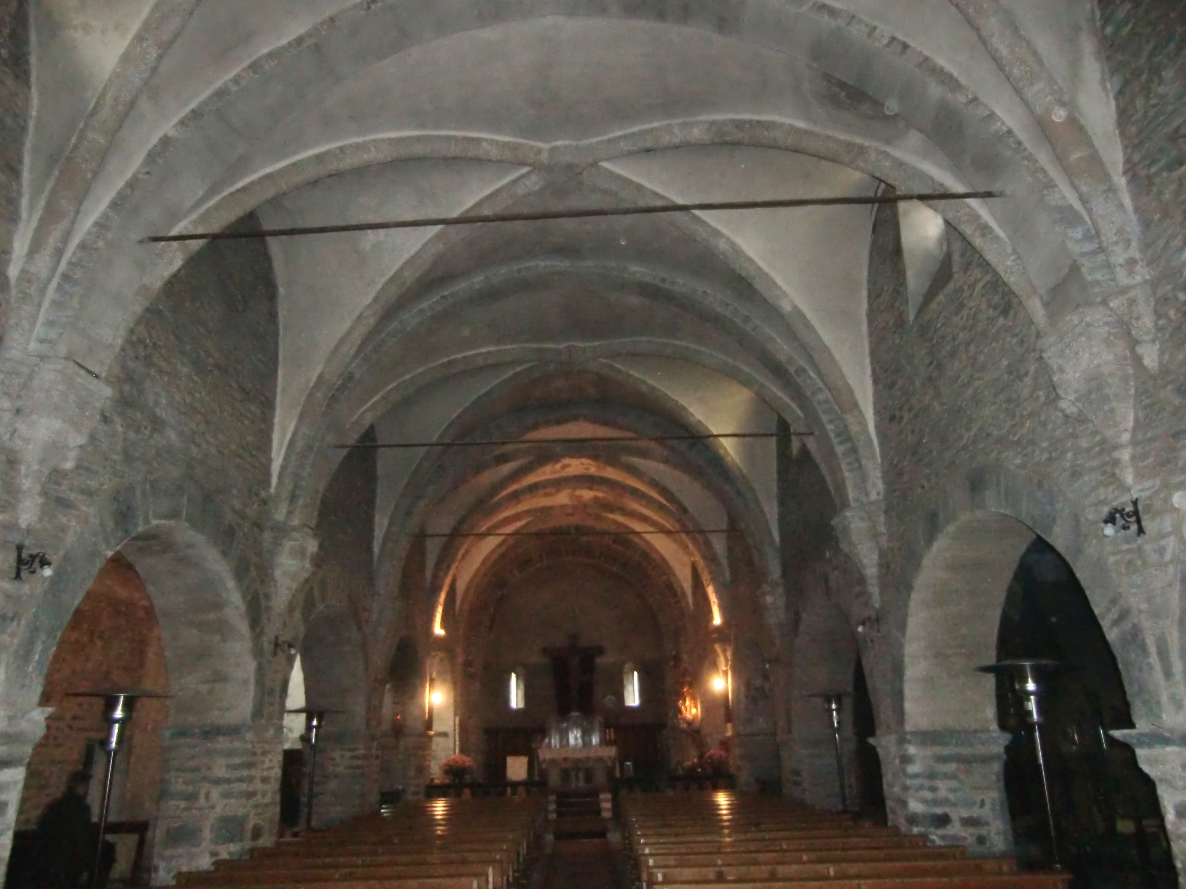 Arnad (Aosta Valley), church of San Martino, The interior